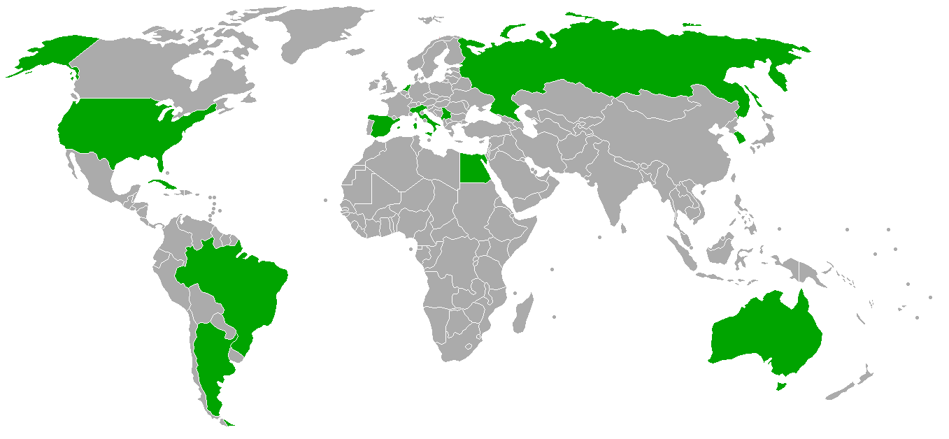 Volleyball at the 2000 Summer Olympics – Men's volleyball